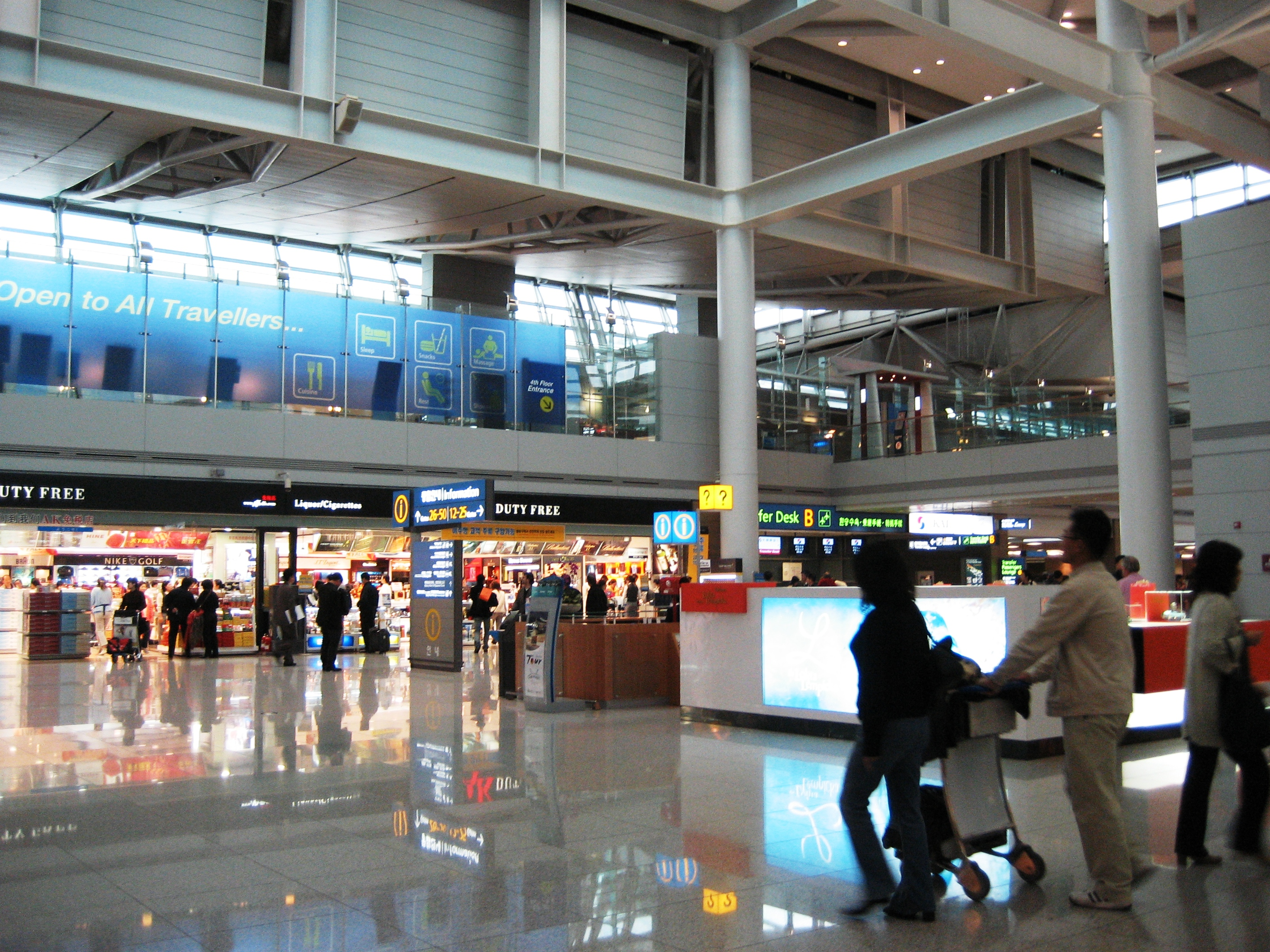 Incheon International Airport with Duty-free shop in Boarding lobby.